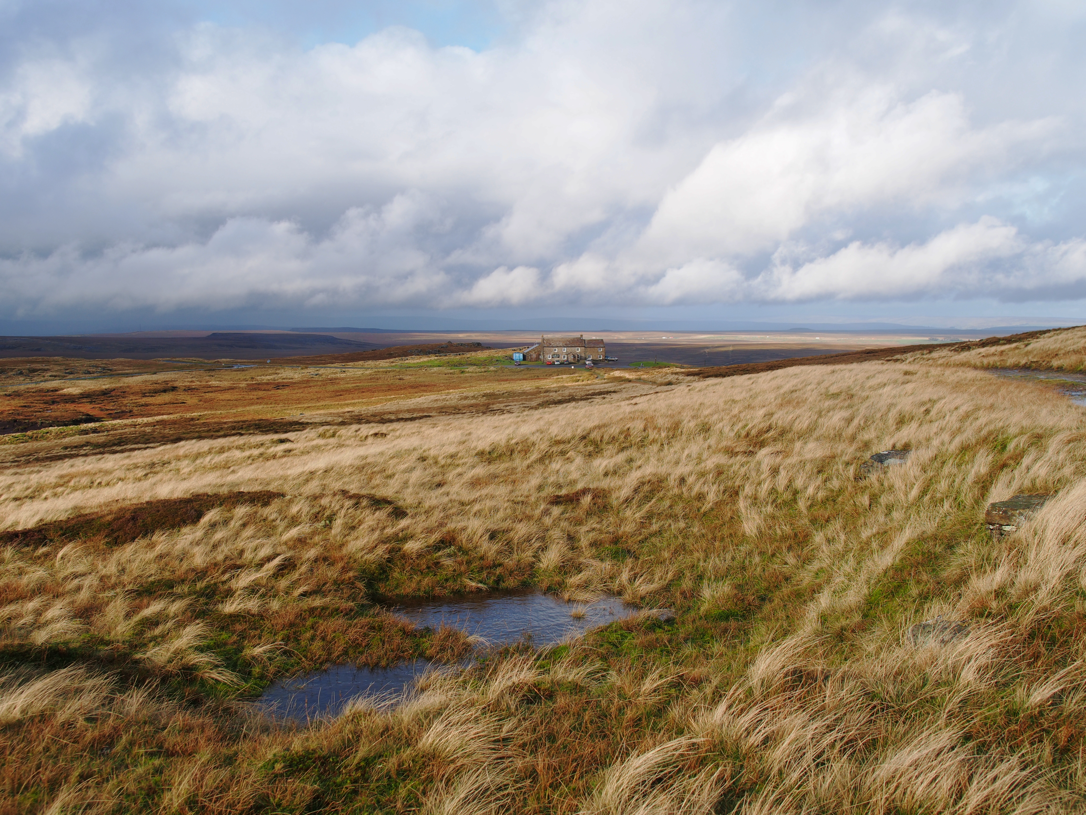 Approaching Tan Hill Inn on the Pennine Way from the south